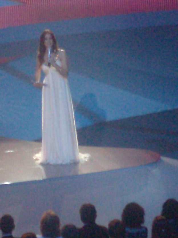 Festival RTP da Canção 2010 1st semifinal